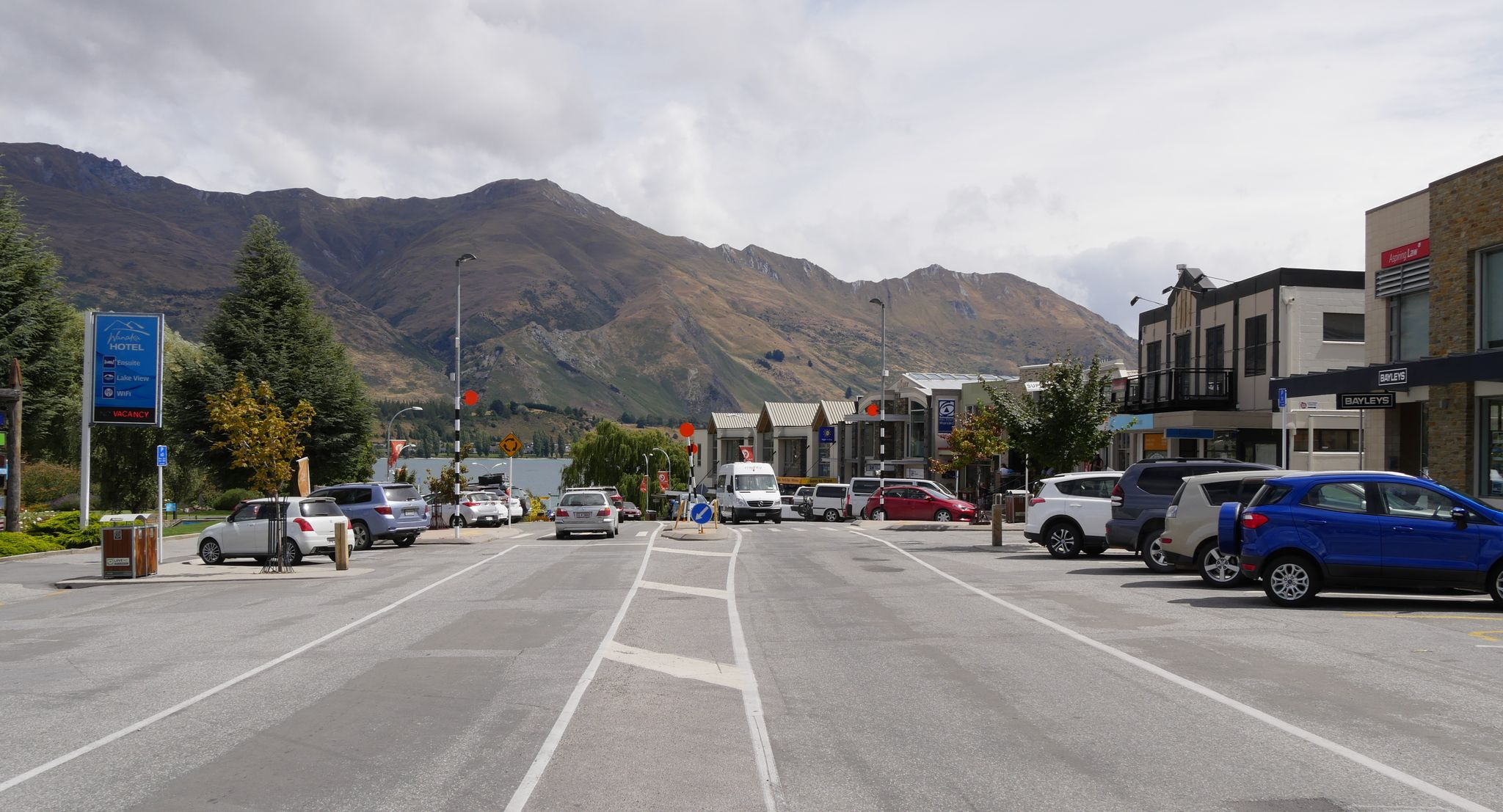 Ardmore Street with view to the lake, Wanaka, Queenstown-Lakes District, Otago Region, South Island, New Zealand